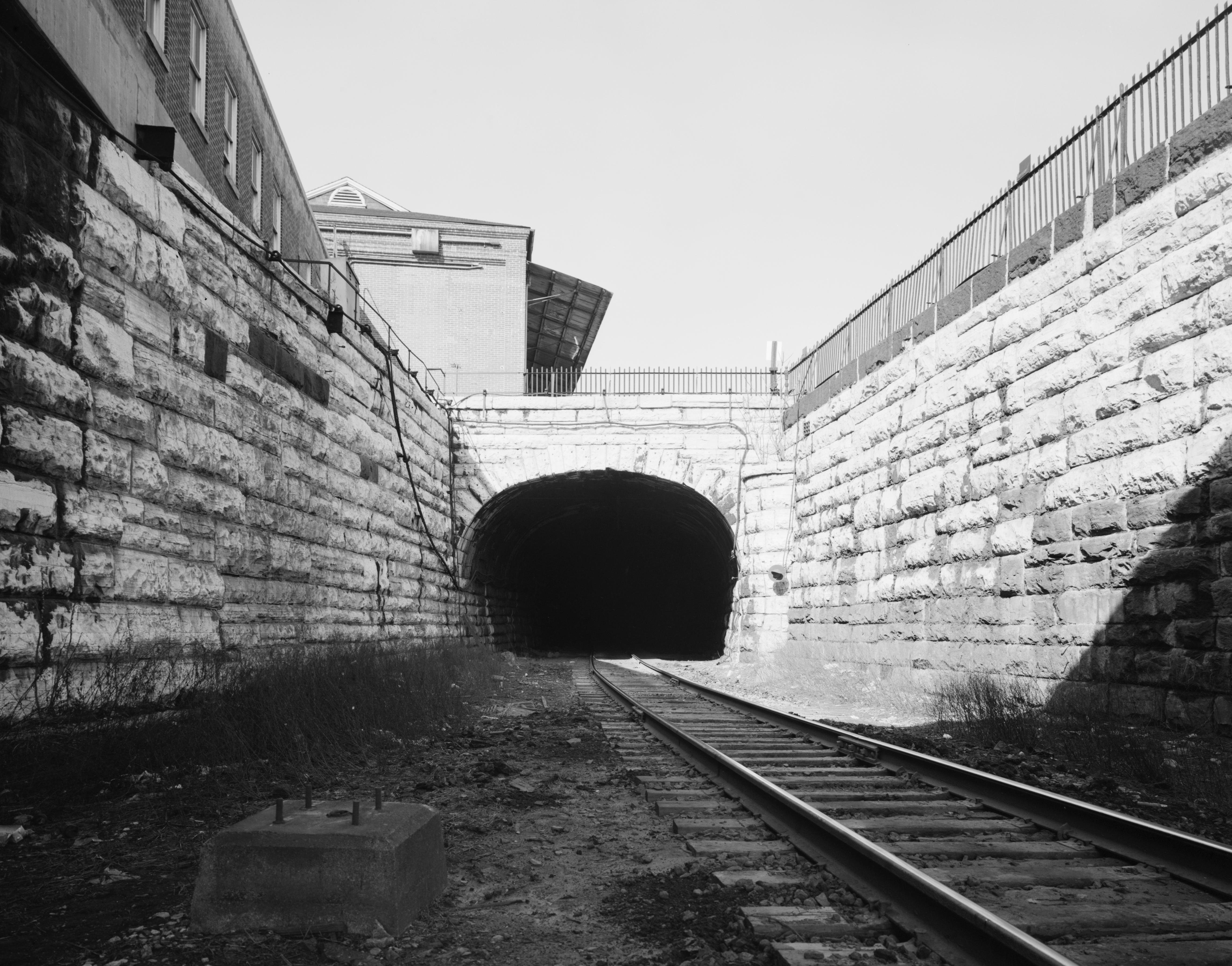 Baltimore & Ohio Railroad, Howard Street Tunnel, 1300 Mount Royal Avenue (Baltimore, Maryland)